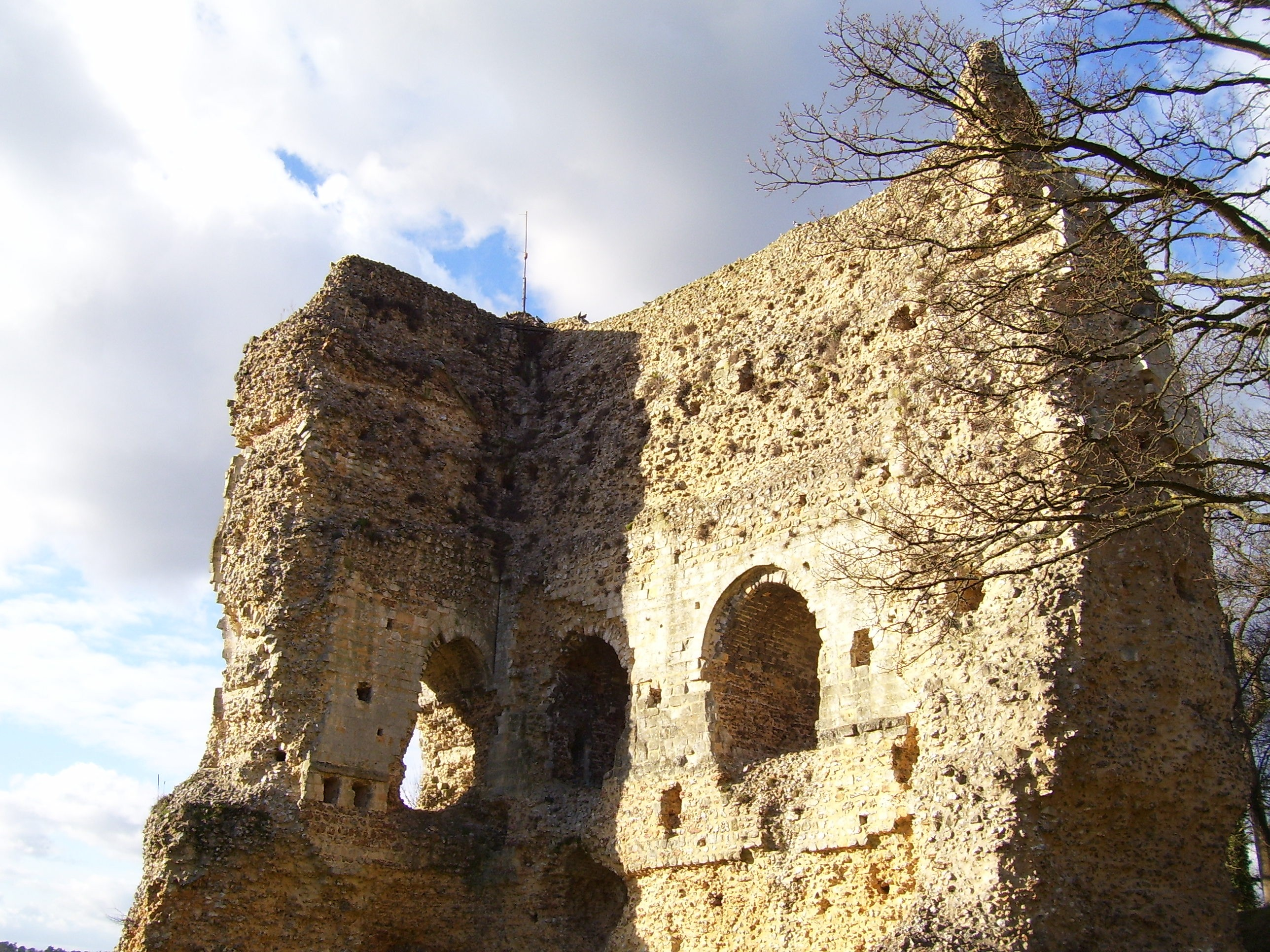 Donjon in Brionne, departement Eure, France, 11th century.